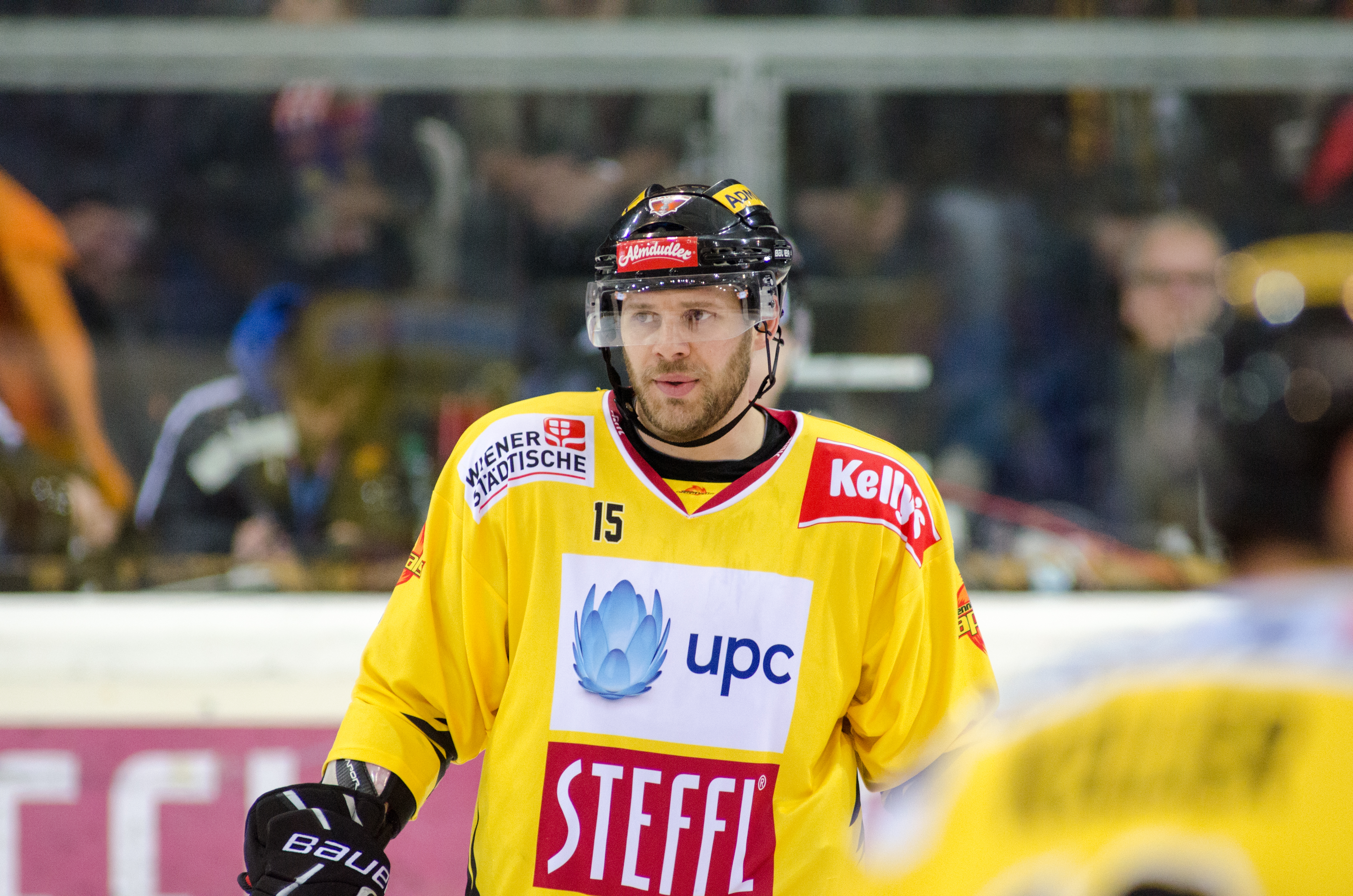 14.03.2014,Stadthalle Villach,Villach, AUT,Play Off Viertelfinale, EC VSV vs. UPC Vienna Capitals, im Bild ///, stewo Pictures © 2014, PhotoCredit: stewo/ Stephan Woldron